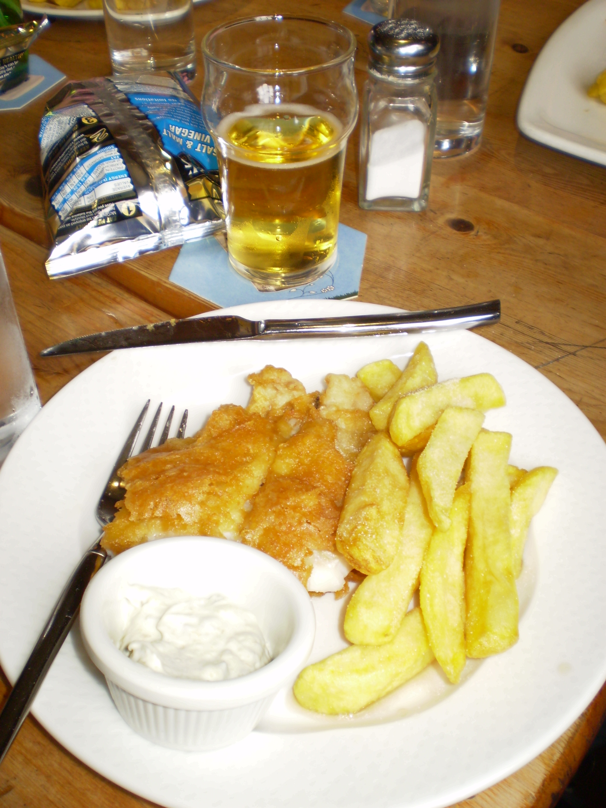 A traditional English meal of fish and chips, with beer, tartar sauce, and salt and vinegar crisps.